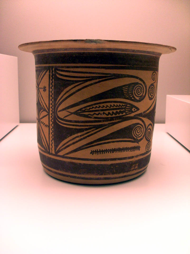 Iberian kalathos from the necropolis of El Verdolay (Murcia). 2nd century B.C. Archaeological museum of Murcia.